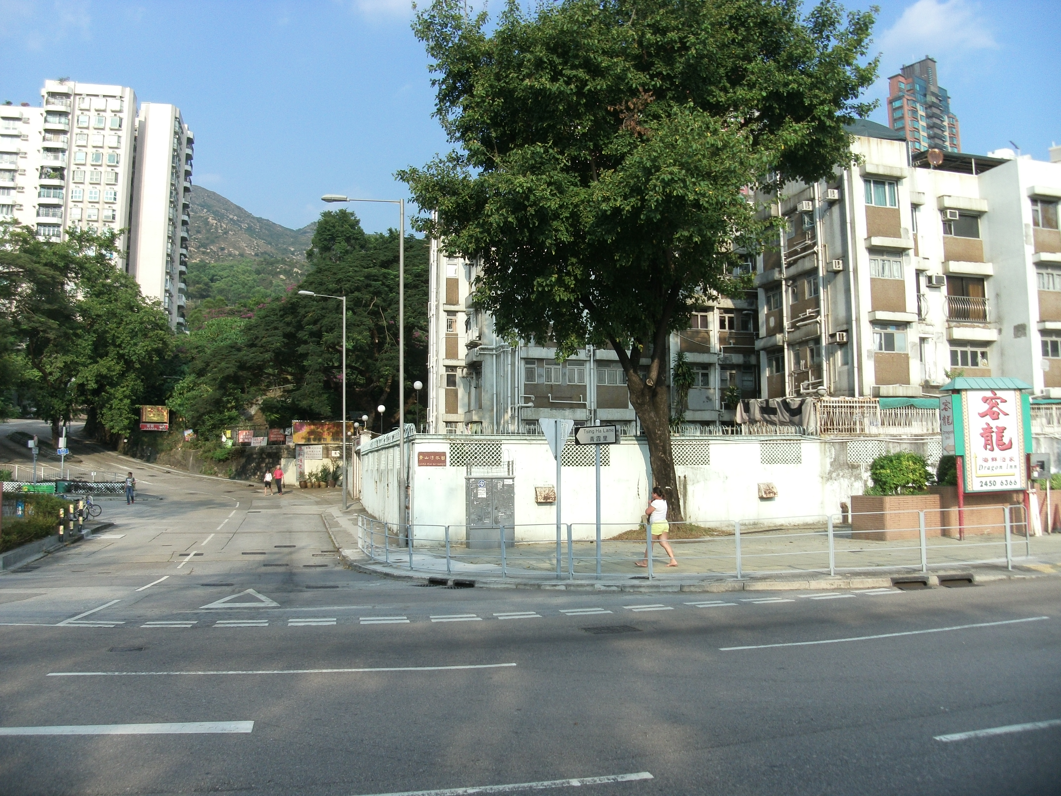 yung lung